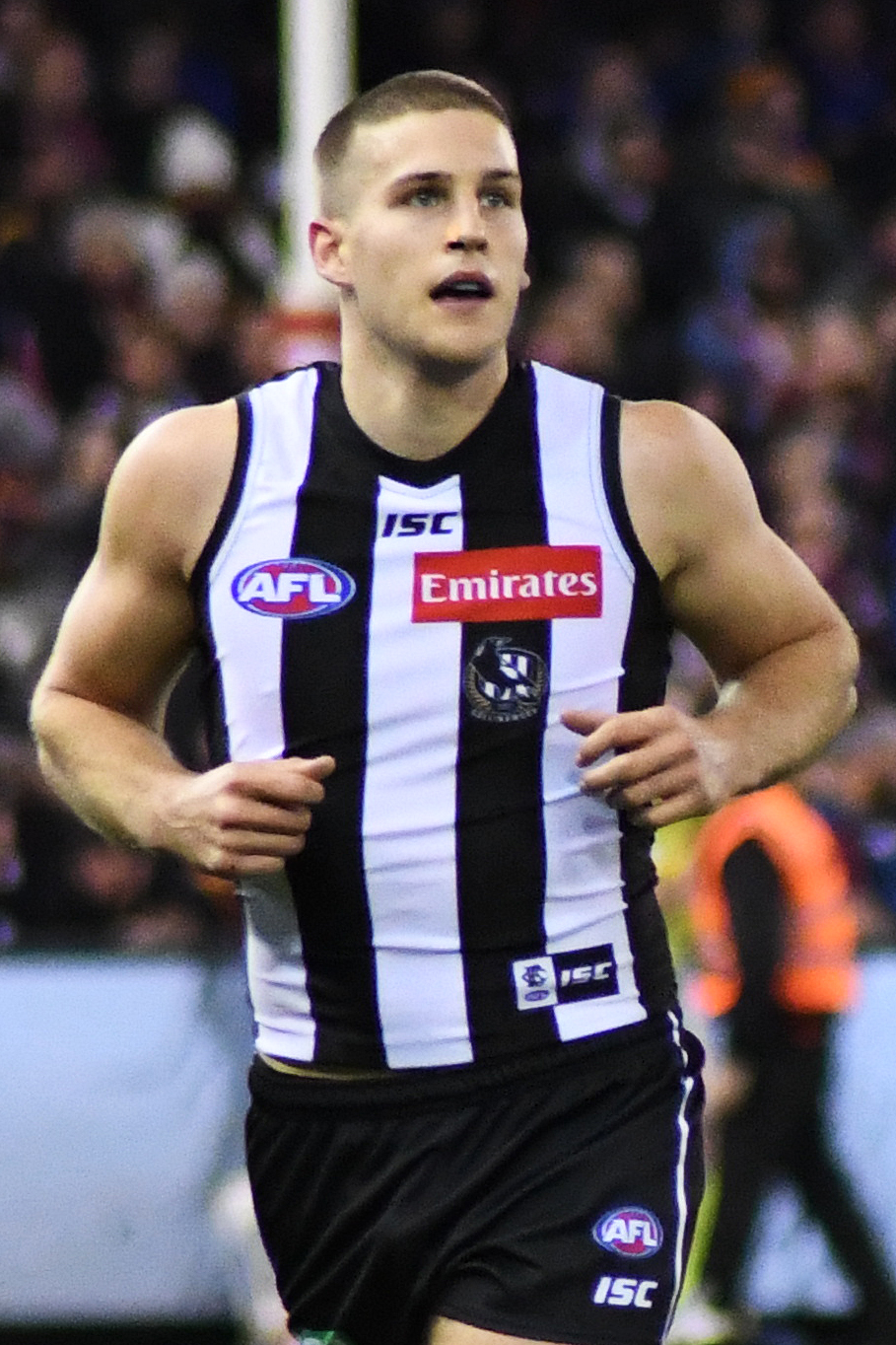 Brayden Sier of Collingwood during the 2018 AFL round 21 match between Collingwood and Brisbane at Etihad Stadium on Saturday, 11 August 2018 in Melbourne, Victoria.